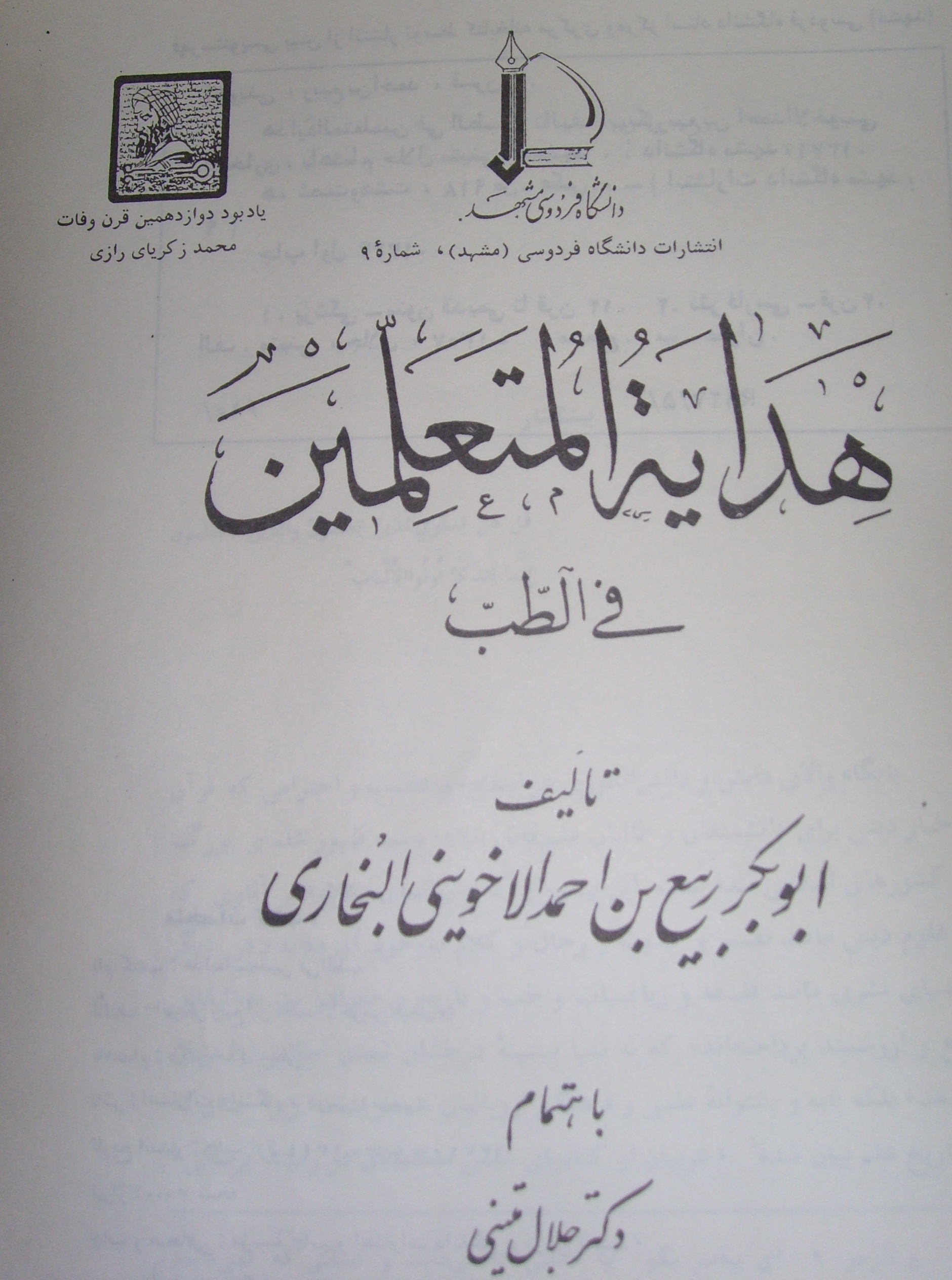 Firs page of the book Hidayat al-Muta`allemin Fi al-Tibb